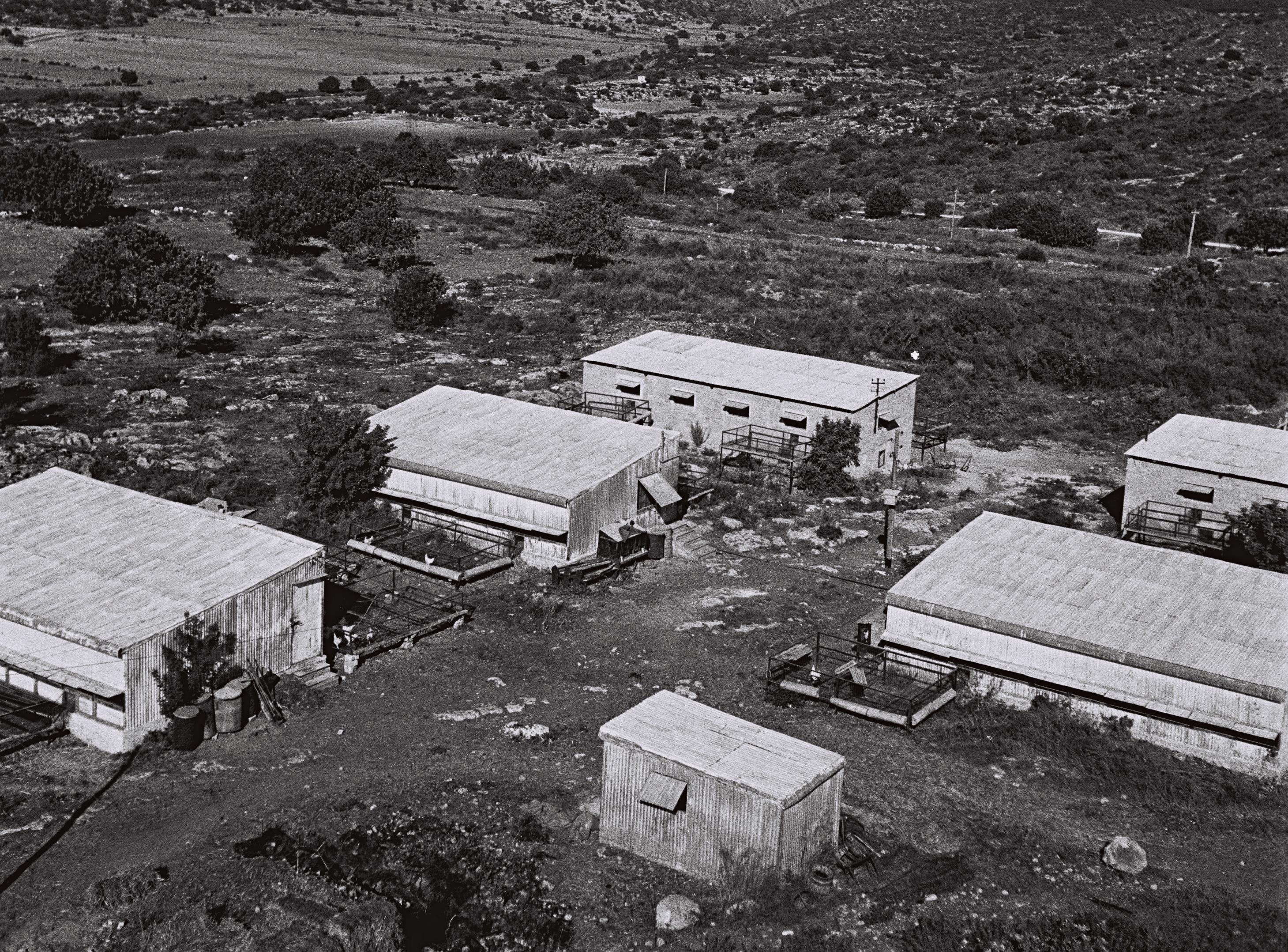 An aerial view of Kibbutz Matzuva in western Galilee